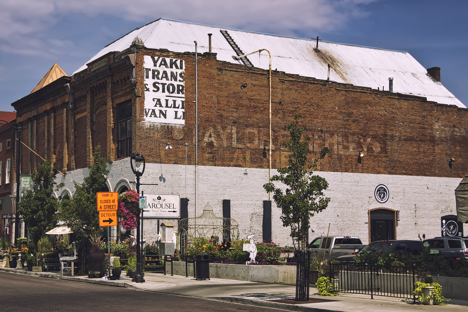 Old North Yakima Historic District, Roughly bounded by E. A St., S. First St., E. Yakima Ave., and the Northern Pacific RR tracks Yakima